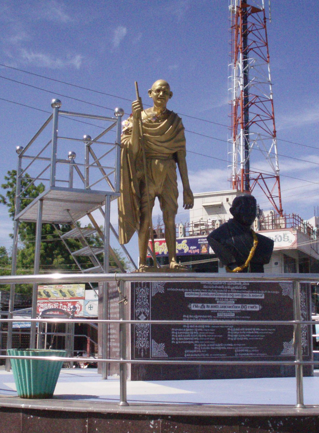 Gandhi statue in the center of Jammalamadugu, Andhra Pradesh, India. This replaces the picture taken in August 2005, since the stand has been extensively rebuilt since then.